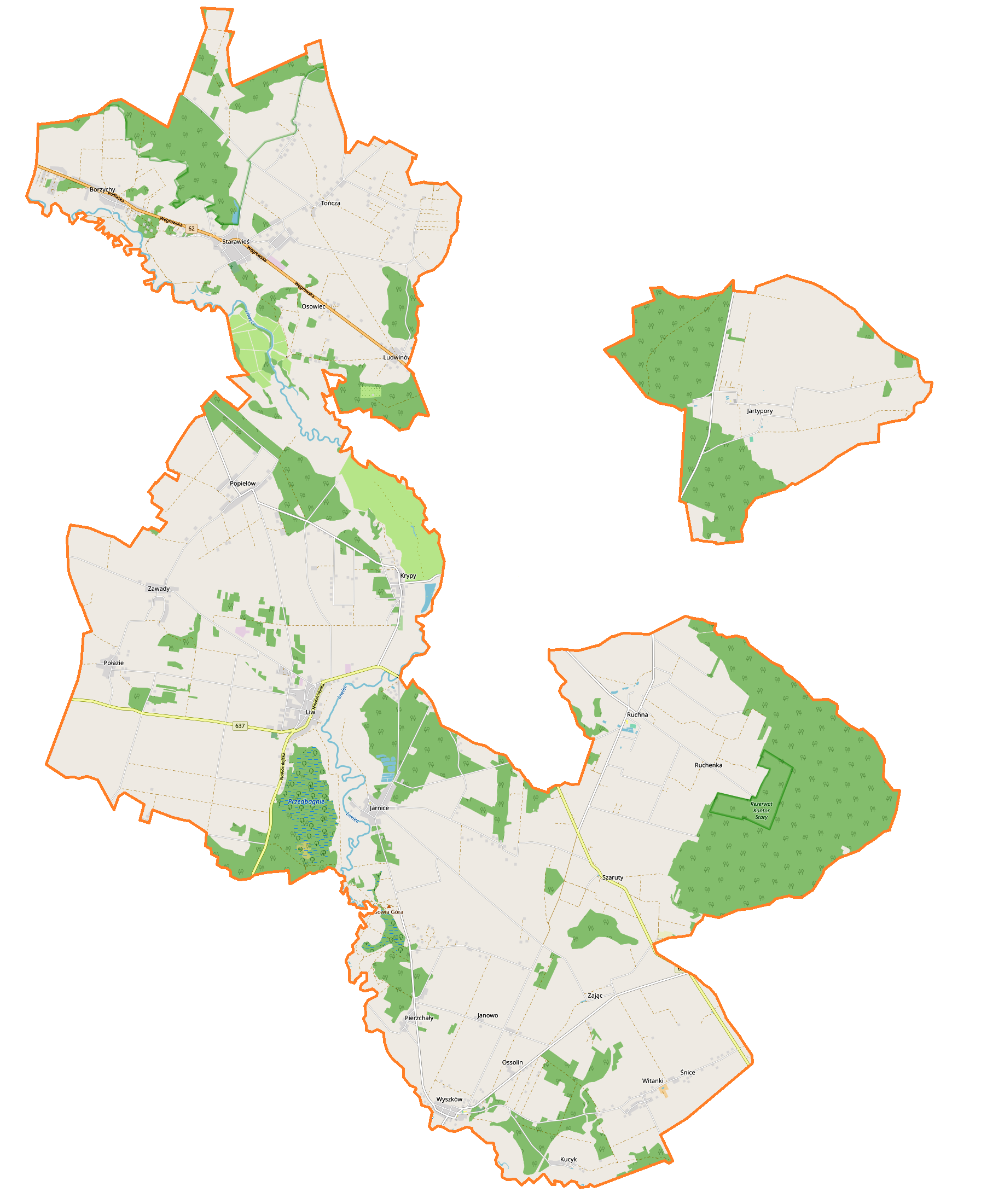 Map of Gmina Liw, Poland This map of Liw (gmina) was created from OpenStreetMap project data, collected by the community. This map may be incomplete, and may contain errors. Don't rely solely on it for navigation.